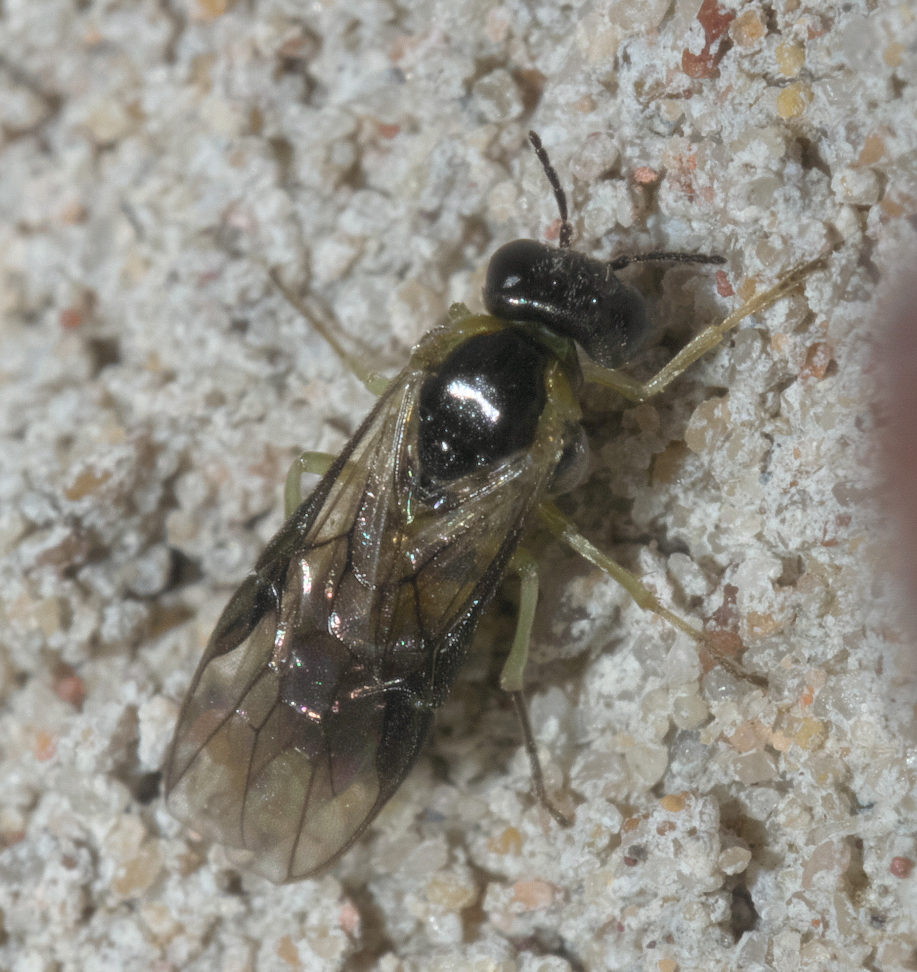 Acordulecera, Family: Pergid Sawflies, Size: 5.2 mm, ID Confidence: 98